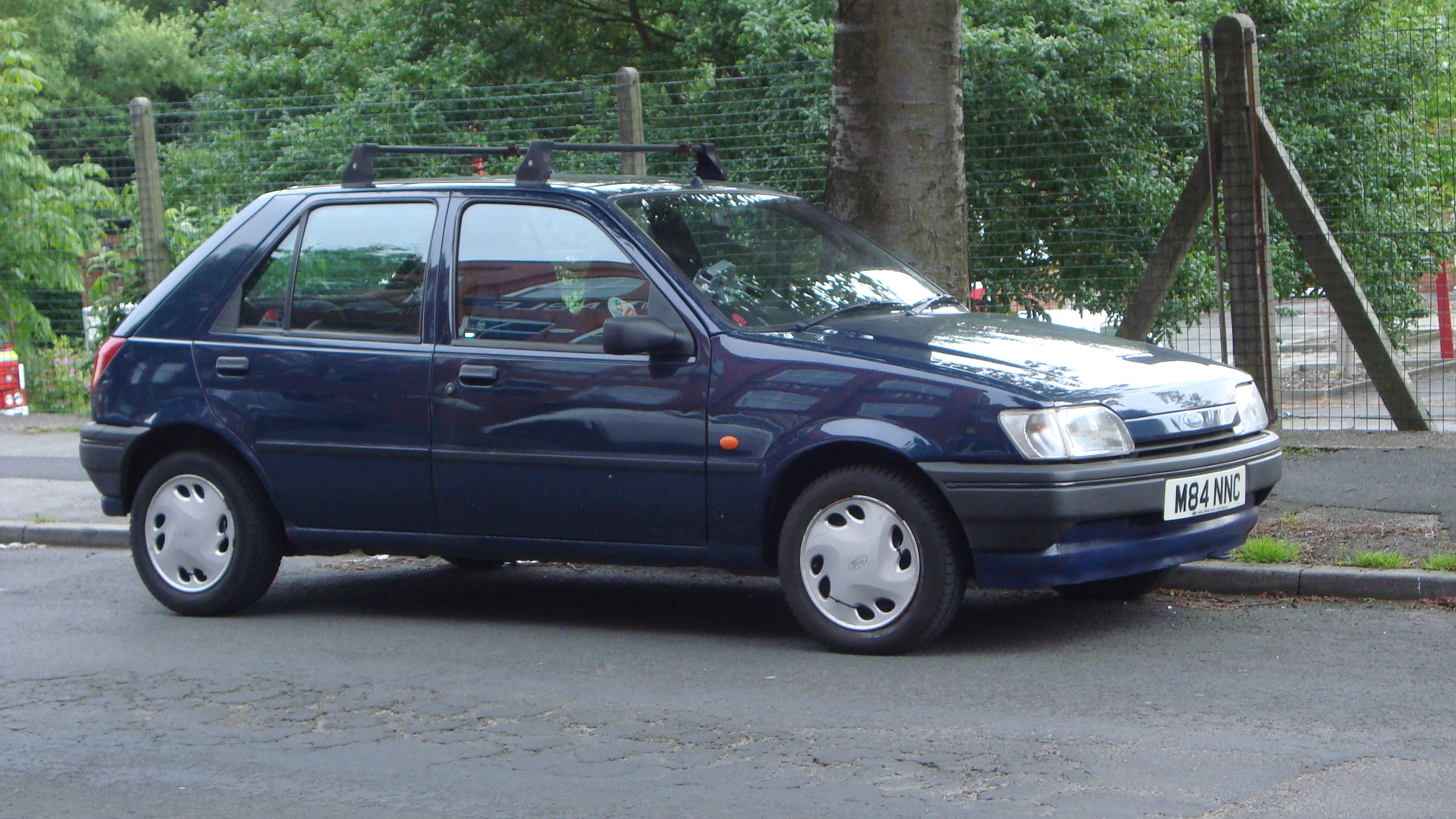 Very clean for one of these as most of them look on borrowed time these days